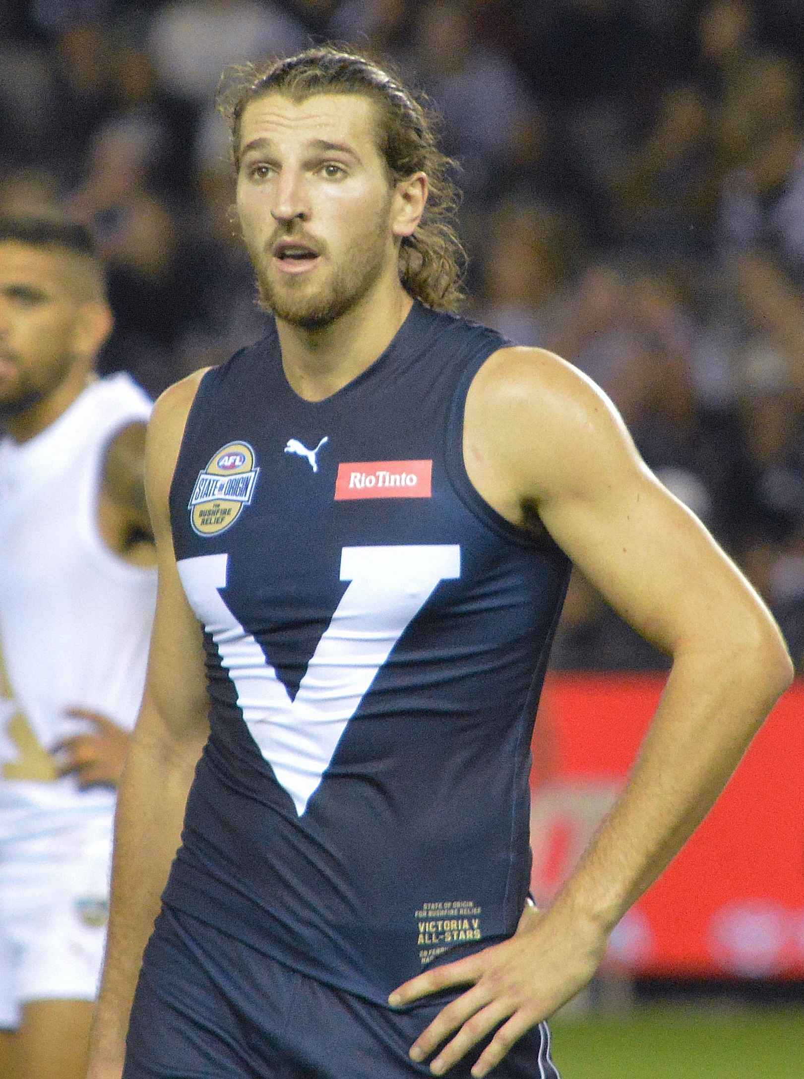 Marcus Bontempelli at the AFL State of Origin for Bushfire Relief Match at Marvel Stadium in February 2020.